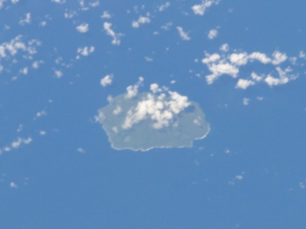 TONGA/LATE ISLAND